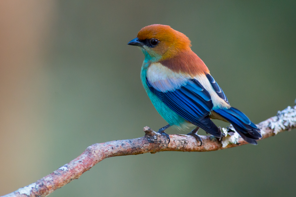 Tangara preciosa, Chestnut-backed Tanager